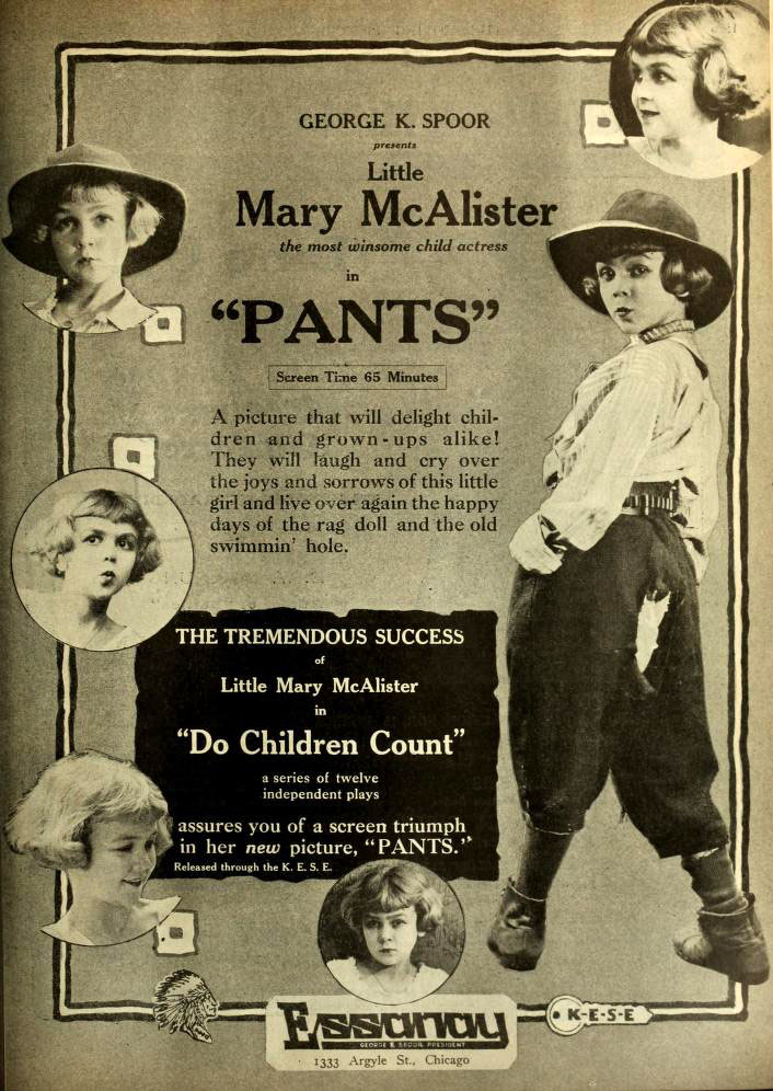 Advertisement in Moving Picture World for the American comedy film Pants (1917) with Mary McAllister.